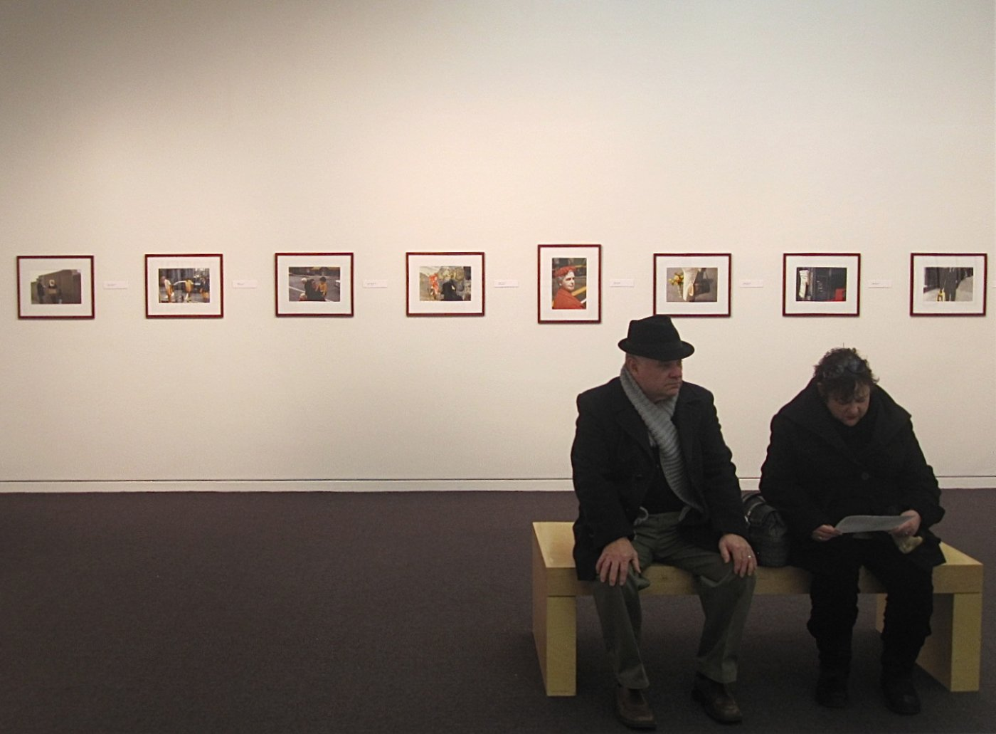 Taken at the "Finding Vivian Maier: Chicago Street Photographer" exhibition in Chicago 2011